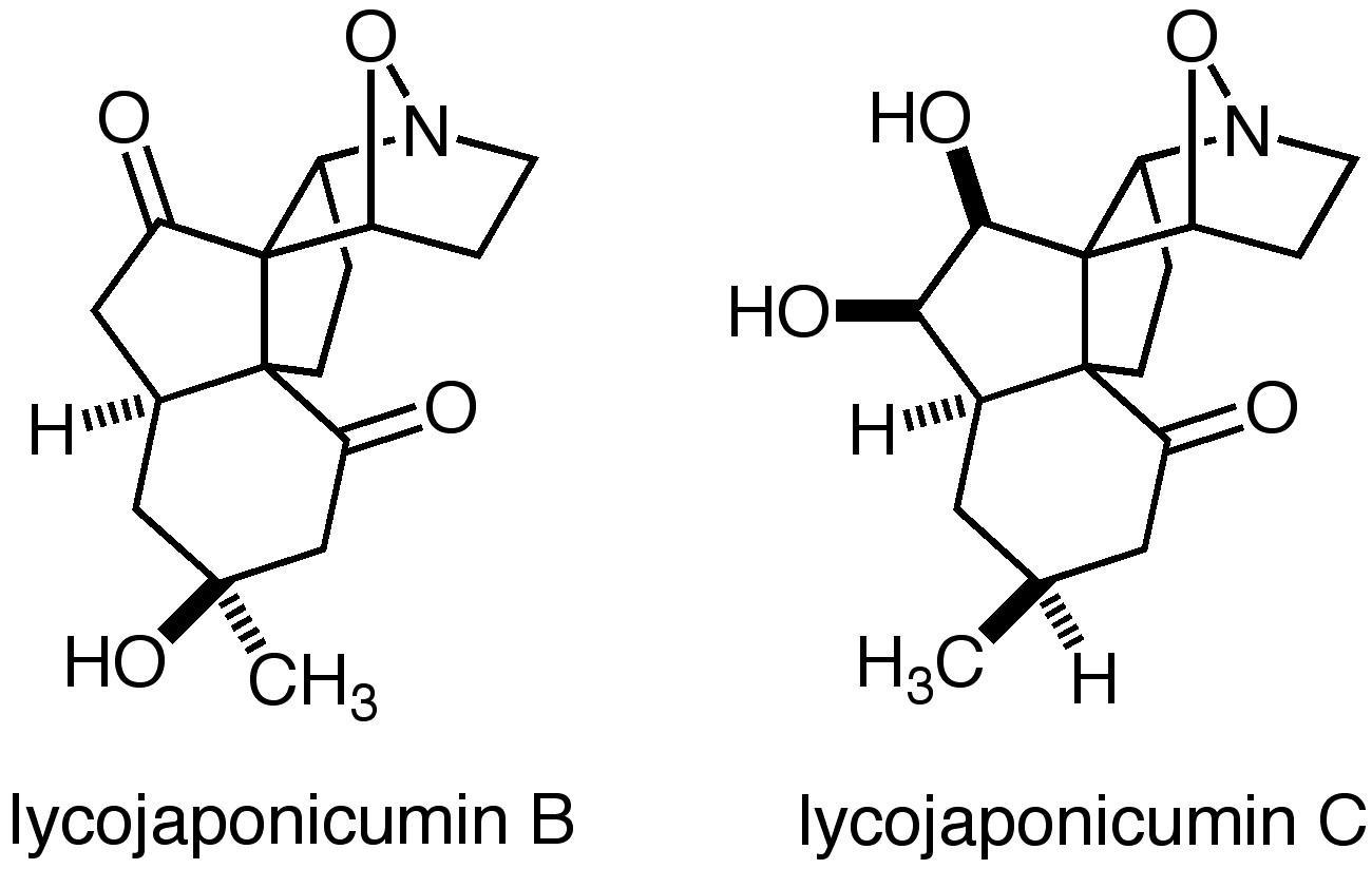 Lycojaponicumin B and C